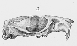 This picture is extracted from "Leche 1886 plate 16.png"; fig. 2. It shows the skull and the upper jaw of the Sooretamys angouya.